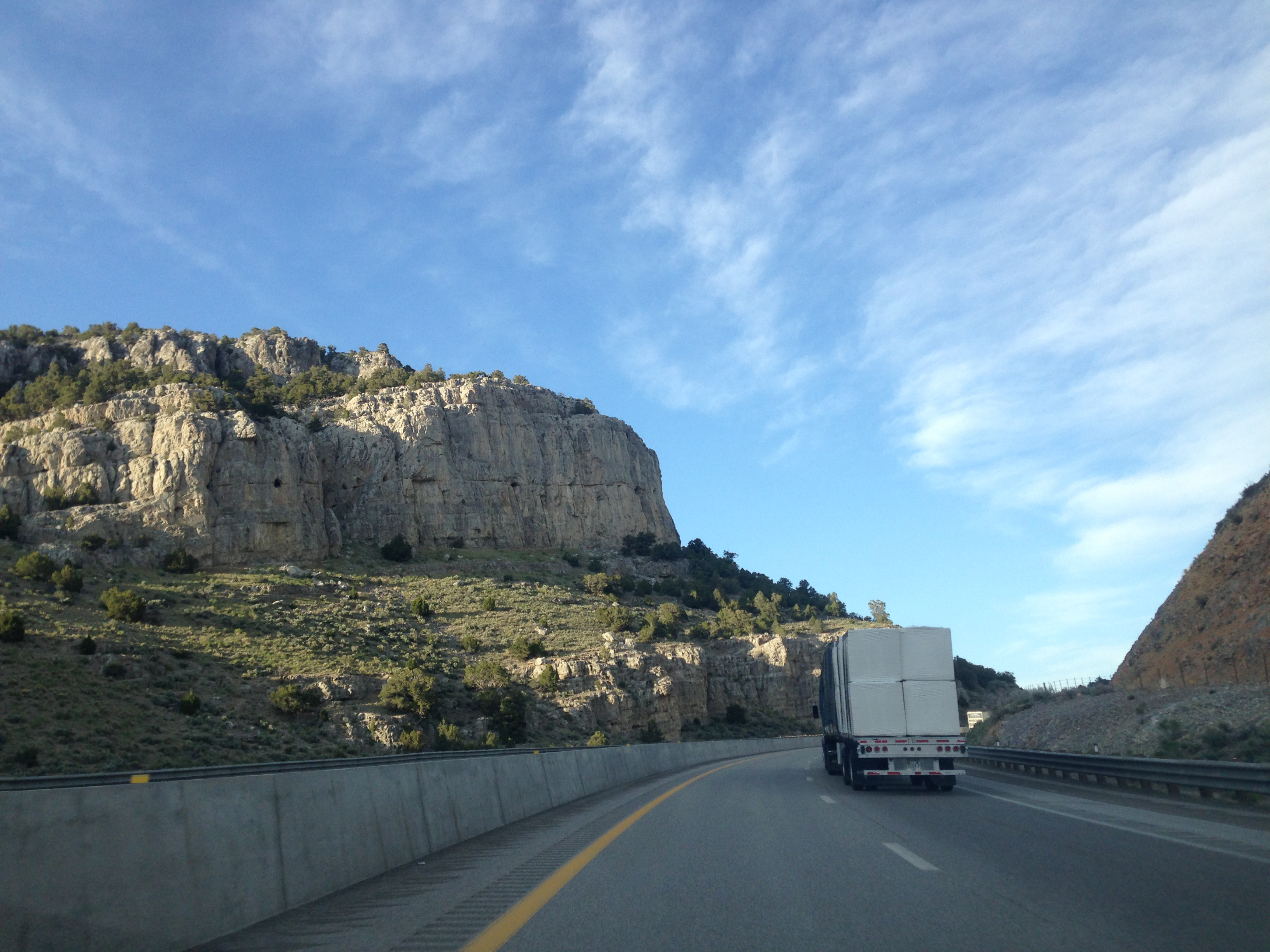 View east along Interstate 80 and Alternate U.S. Route 93 near milepost 372 in Maverick Canyon of the Pequop Mountains in Nevada